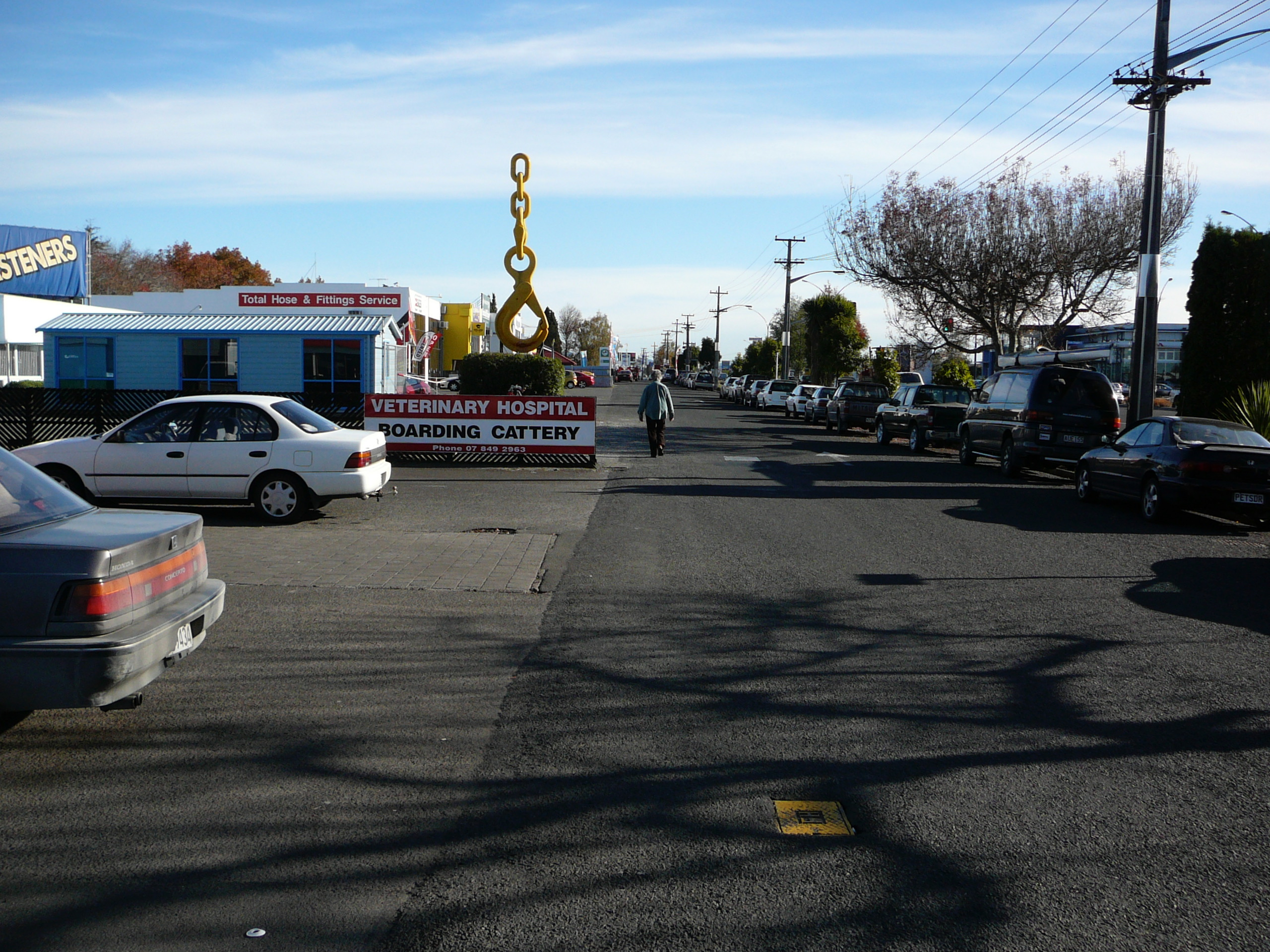 Te Rapa Road has lost its footpath to parking on part of the west side.